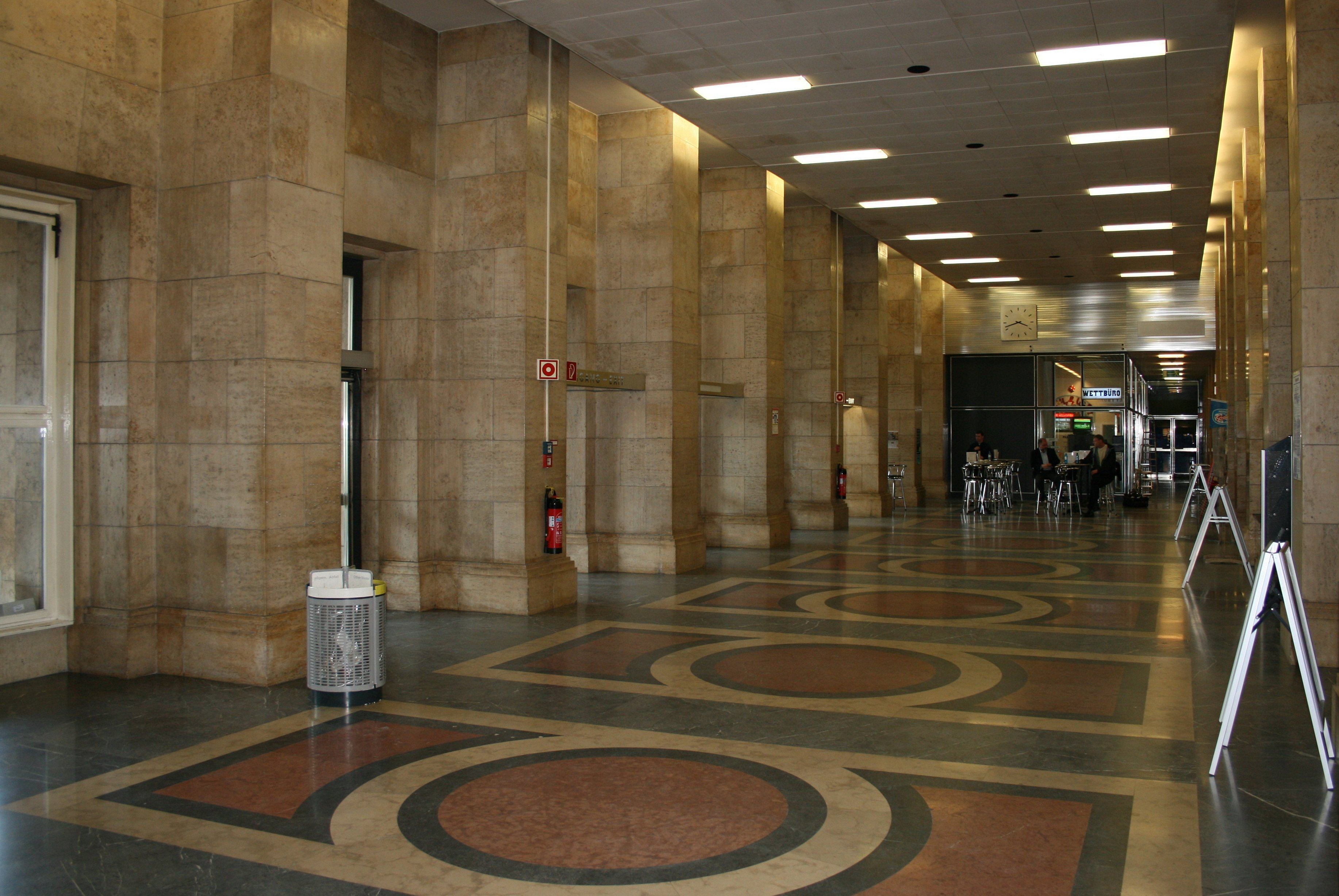 Entrance to the lobby of the airport Berlin-Tempelhof